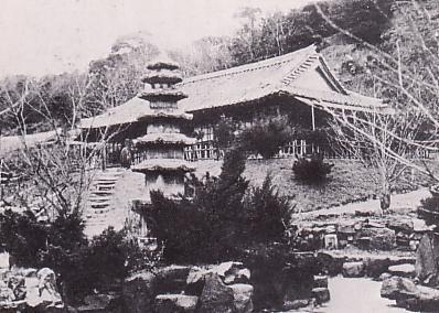 Omaki no Chaya in Heijo(Pyongyang)